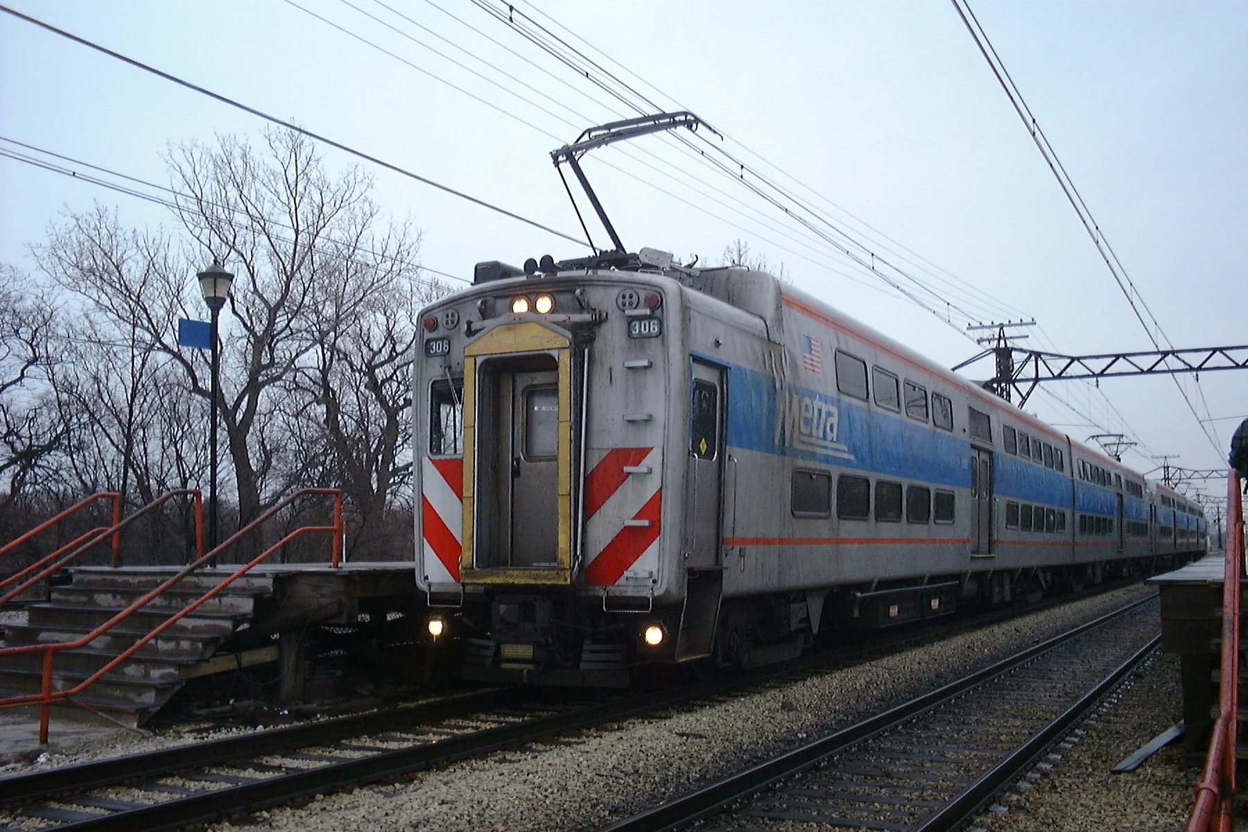 Bilevel electric train at University of Chicago/59th Street Station.